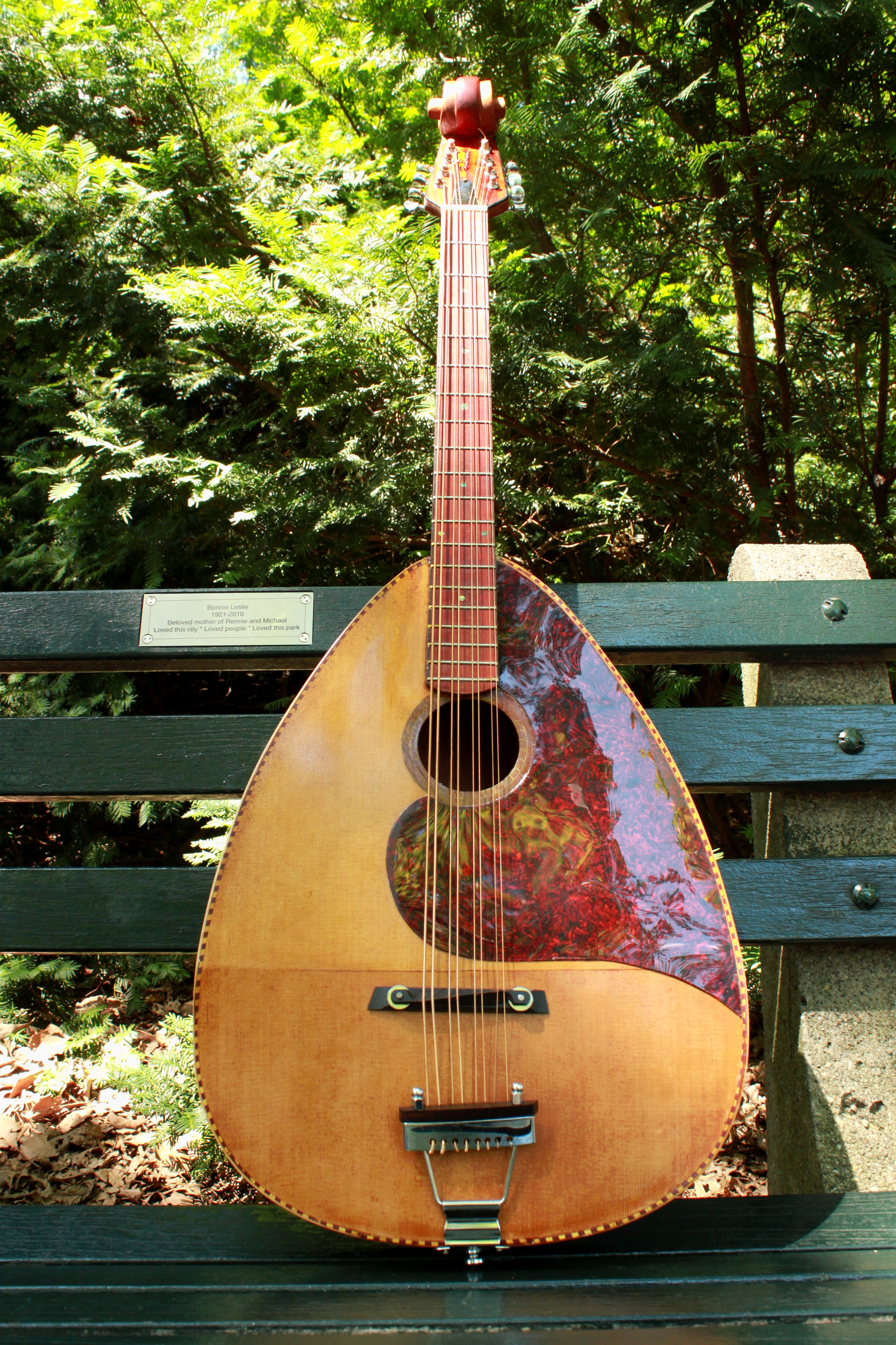 Nevin Fahs's Mandocello: Joe Brent's Mandolin Reviews "The back is padauk and maple, glued up as a slab and then carved to final shape. I was trying to evoke the look of a bowlback, but also let it be its own beautiful thing as well. The top is Sitka spruce frrom my supplier in Alaska, who harvests reclaimed logs that have been buried or fallen long ago, he lets them air dry for years and then he selects and saws only the parts best suited to musical instruments. The purfling is purpleheart and maple, that I made up in my shop in a 3 step process. I glue up a stack of alternating woods, then rip strips out of the dried stack. those strips are then cut into short pieces that are arranged and glued side by side onto another strip of scrap wood. When that’s dry, I rip off 1/8” wide strips of the finished purfling. I’m eventually going to document that process with pictures. It’s more time consuming than ordering purfling from a catalog, but I feel it’s a more personal and unique result this way. The neck and scroll are mahogany and padauk, the fingerboard is padauk, which I slotted in a 26 3/8 scale using a 5 string banjo scale template. Making it as long as is comfortable (and I know it is probably close to max in that regard for a mandolin player!) allows a slightly slacker string tension to tune to pitch, which results in more resonance in the top. I wrote on my blog a bit about the inspiration, namely having seen a Larson Bros in similar shape and with a similar top, and realizing the advantages of that time proven folded top design. I’ve since made an OM of similar design, and with similar results, and am finishing up a mandolin as well, that shows promise in the way it sounds when tapped."— Joseph Brent